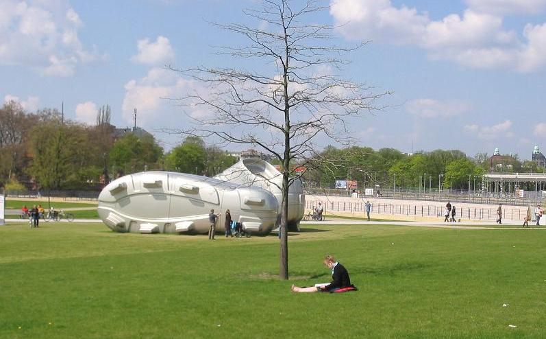 „The modern Football Shoe“, first sculpture (from six) of the Berliner Walk of Ideas on the occasion of 2006 FIFA World Cup Germany. Unveiling: 10 March 2006 in Spreebogenpark (park nearby river Spree and Bundeskanzleramt (Berlin). It is to commemorate to a invention by Adi Daßler)